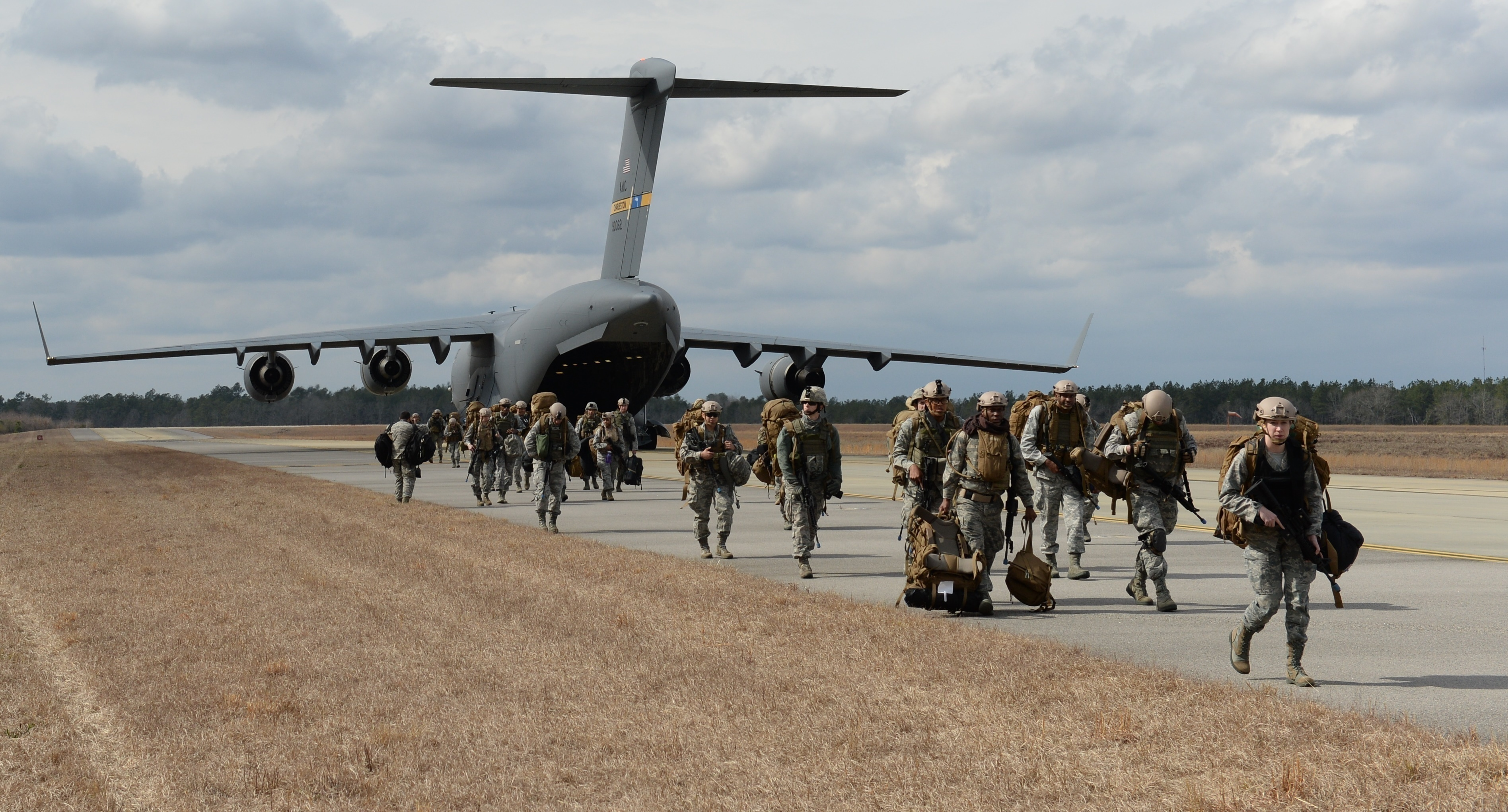 U.S. Air Force Airmen participating in Exercise Scorpion Lens 15 disembark a C-17 Globemaster III at North Auxiliary Airfield, S.C., Feb. 9, 2015 and make their way to a simulated bare-base location. Exercise Scorpion Lens 15 is an annual exercise designed to validate the ability of Air Force combat camera Airmen to survive, operate and provide directed imagery capability in an austere environment, including in the presence of chemical, biological, radiological and nuclear contamination. Combat camera Airmen document a full range of military operations in support of senior leaders and combatant commanders. (U.S. Air Force photo by Senior Airman Christopher Reel/Released)